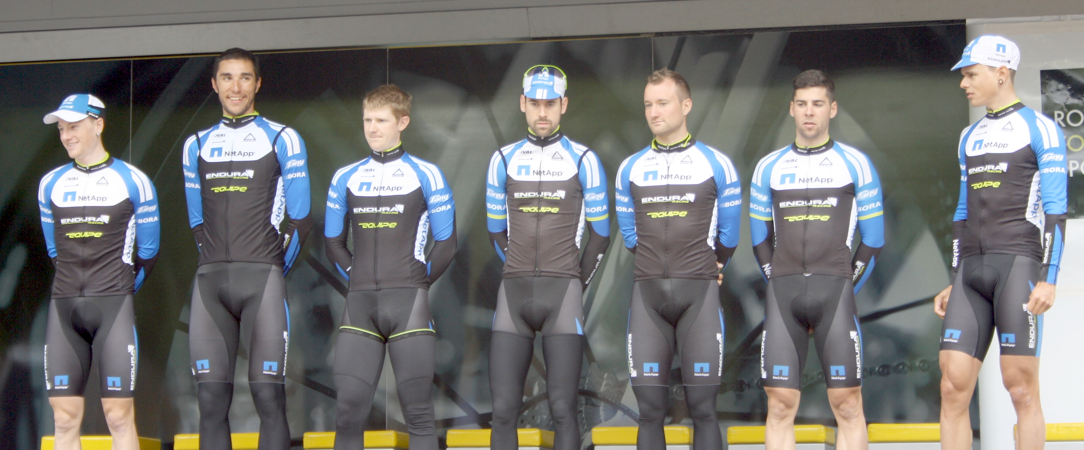 NetApp at the start of the World Ports Classic 2014 in Rotterdam